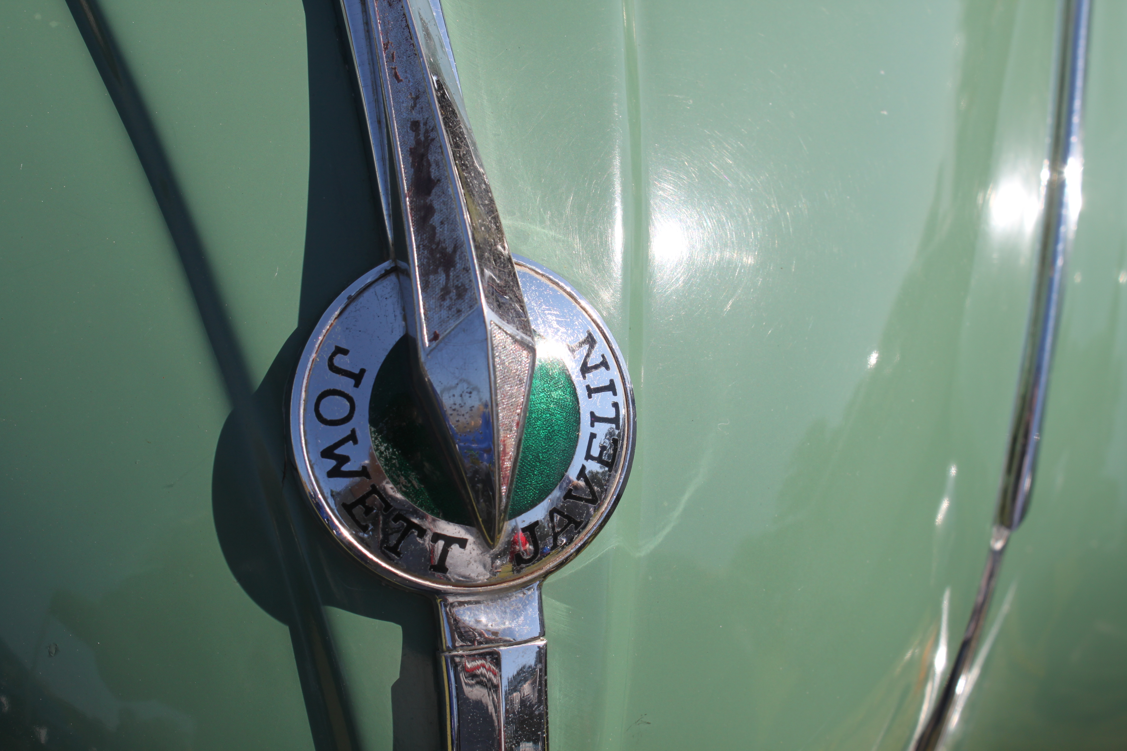 Jowett Javelin